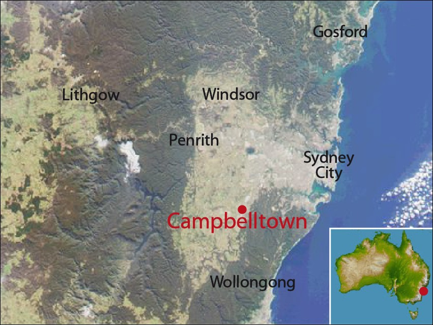 Map of Sydney, highlighting location of Campbelltown, New South Wales